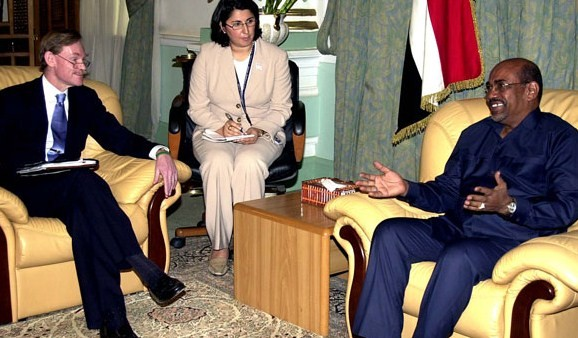 Official US Government State Department photo of the President of Sudan, Omar al-Bashir